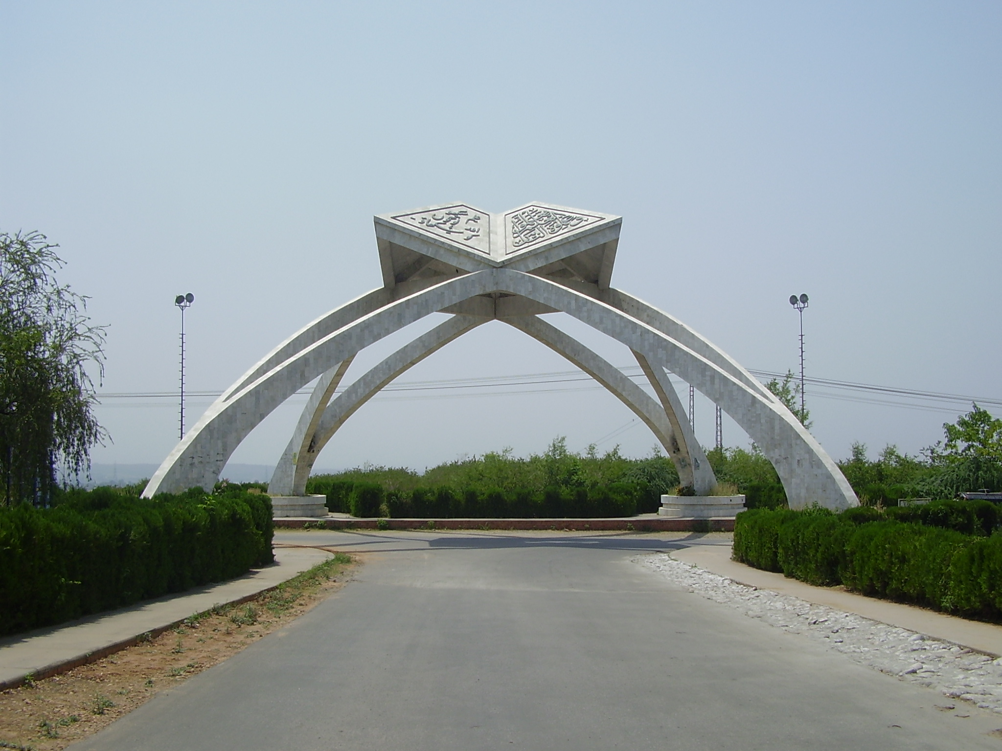 Quaid-i-Azam University - Entrance Arch — in Islamabad.